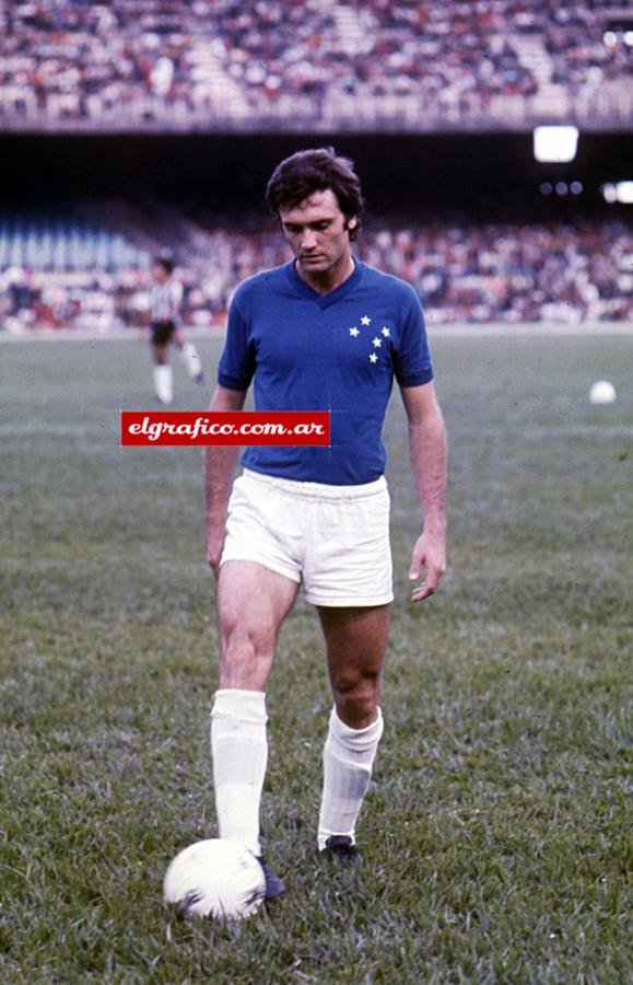 Roberto Perfumo playing for Cruzeiro